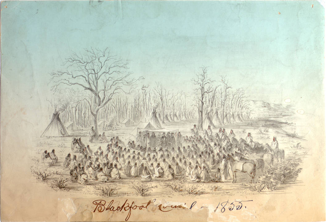 A scene at the Blackfeet Treaty Council held between Isaac Stevens and the Blackfoot Indians. Isaac Stevens is standing under a canvas shelter at the center with a group of other Euro-Americans. He has both hands on the lapels of his coat. Rows of Indians are seated on the ground looking toward Stevens. Military tents and tipis are visible in the background.